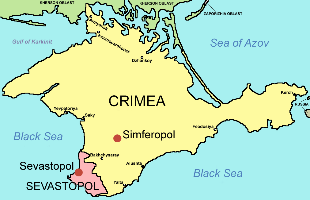 Derived from File:Crimea republic map.png